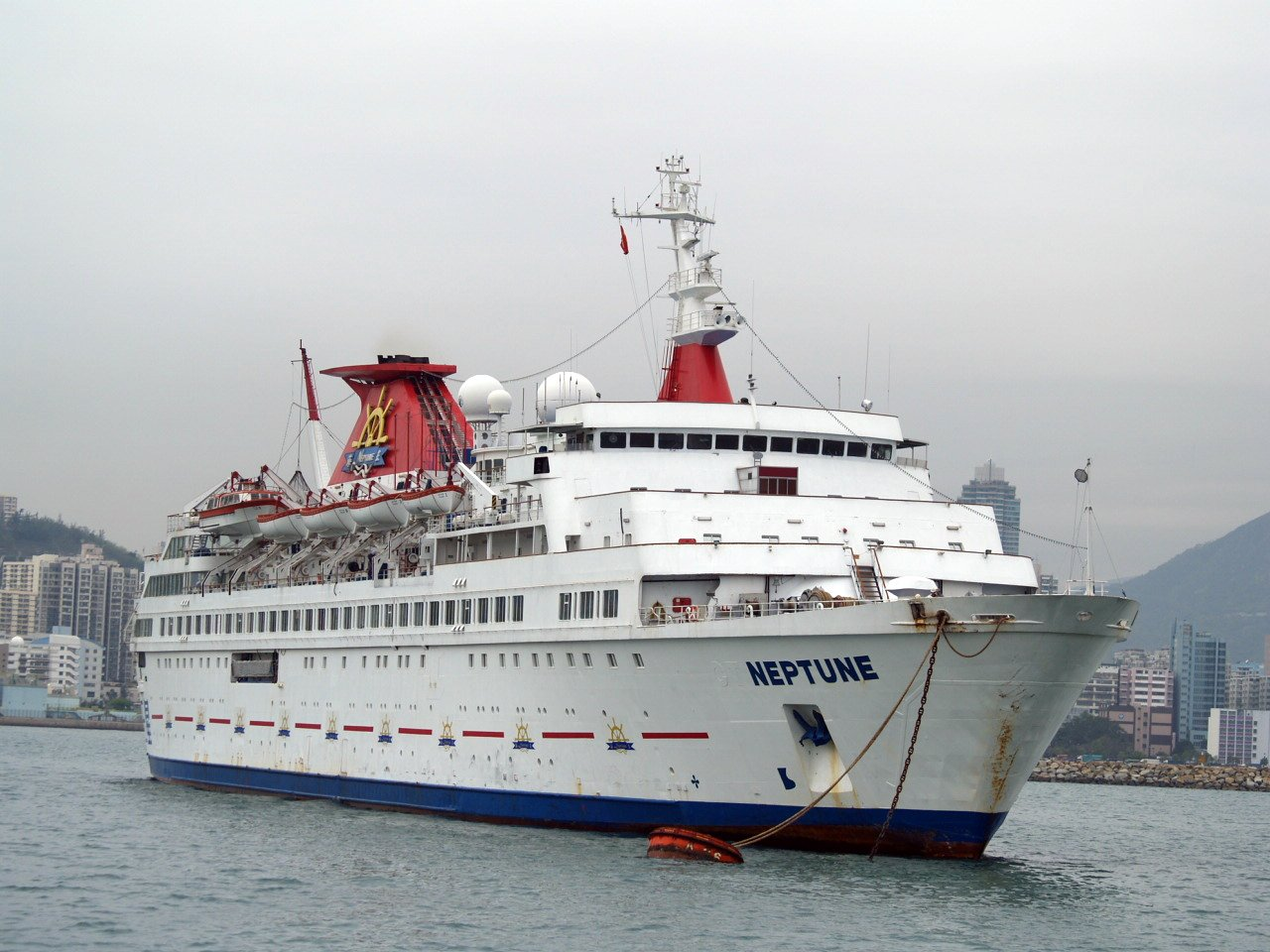 Passenger Cruise Ship Neptune IMO number : 7359498 Name of ship : NEPTUNE Call Sign : H3NI Gross tonnage : 15791 Type of ship : Passenger (Cruise) Ship Year of build : 1976 Flag : Panama Status of ship : In Service